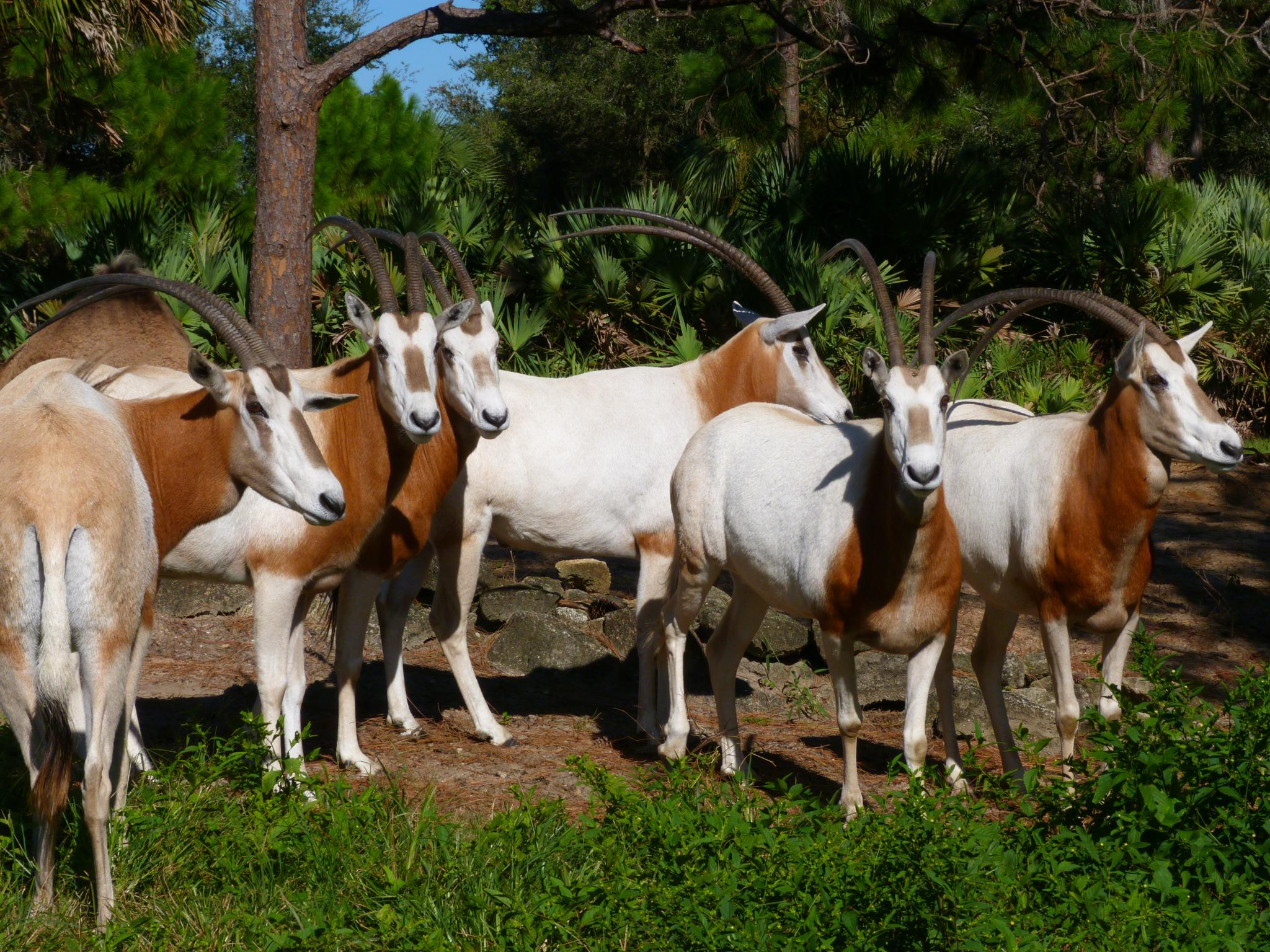 oryx